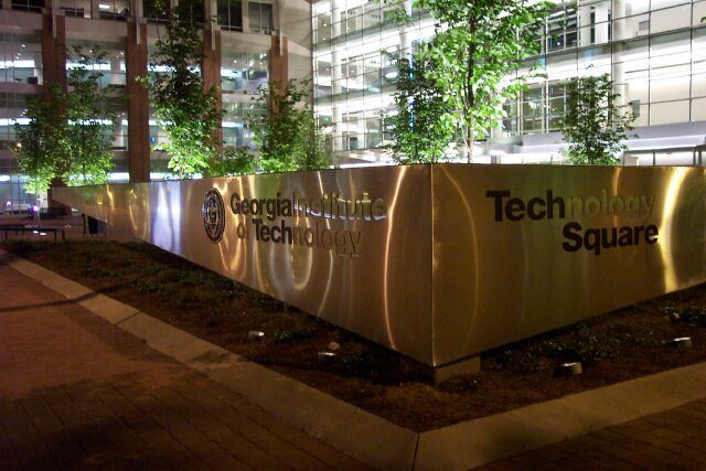 Tagging GFDL: likely shot by uploader. See also Image:Atltechsquare2.jpg. Fred-Chess 20:06, 26 September 2005 (UTC)